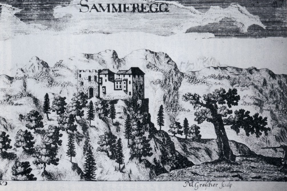 Sommeregg castle near lake Millstatt / Carinthia / Austria / European Union.